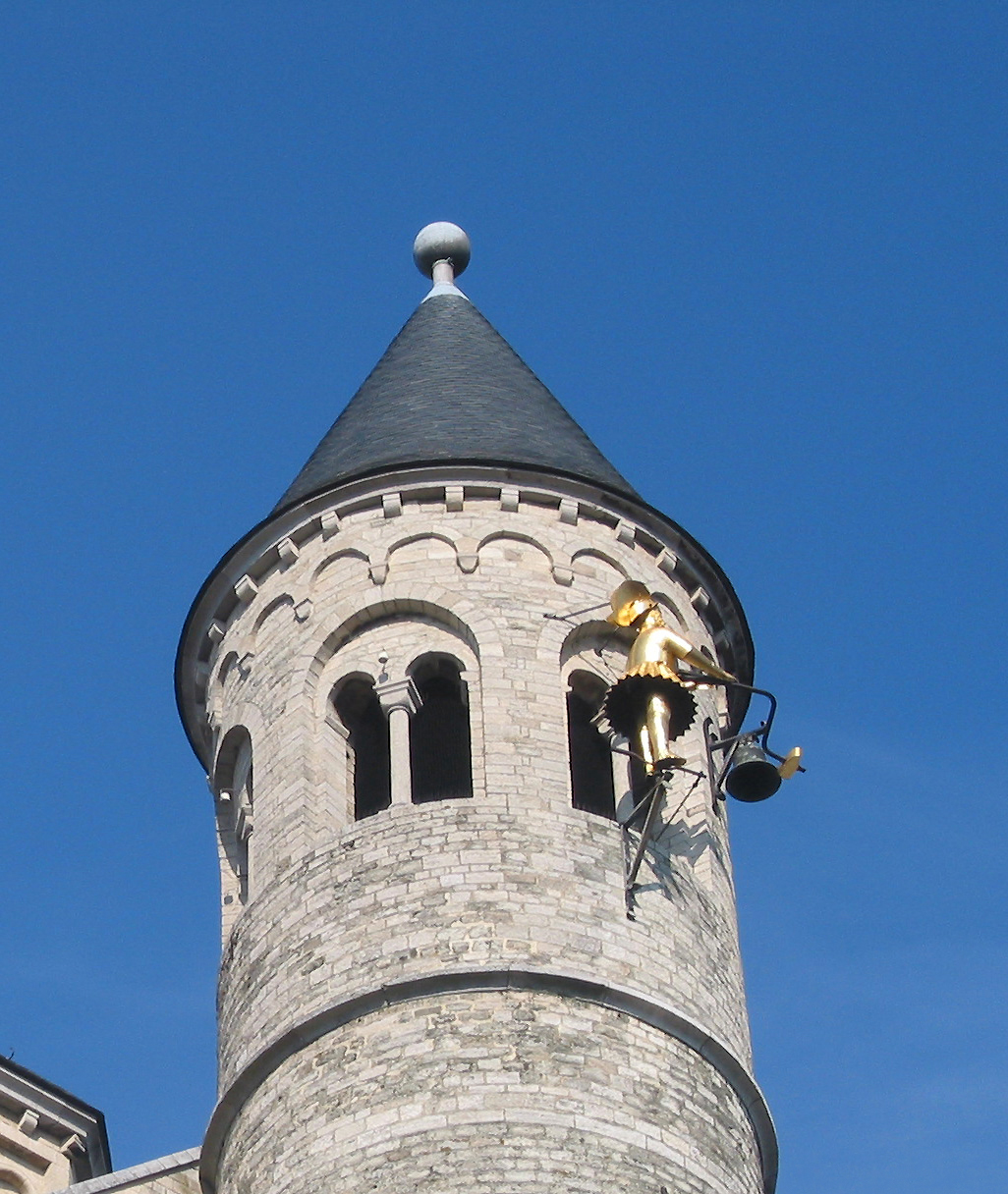 Nivelles (Belgium), "Djan-Djan" the famous southern campanile jacquemart (XVIth century) of the St. Gertrude Collegiate church (XI/XIIIth century). Walon: Nivèle (Bèljike), "Djan-Djan" li fameûs soneû d’clotche (XVIe sièke) dol tourète do midi dol coléjiale Sint Djèrtrûde (XI/XIIIin.me sièkes).